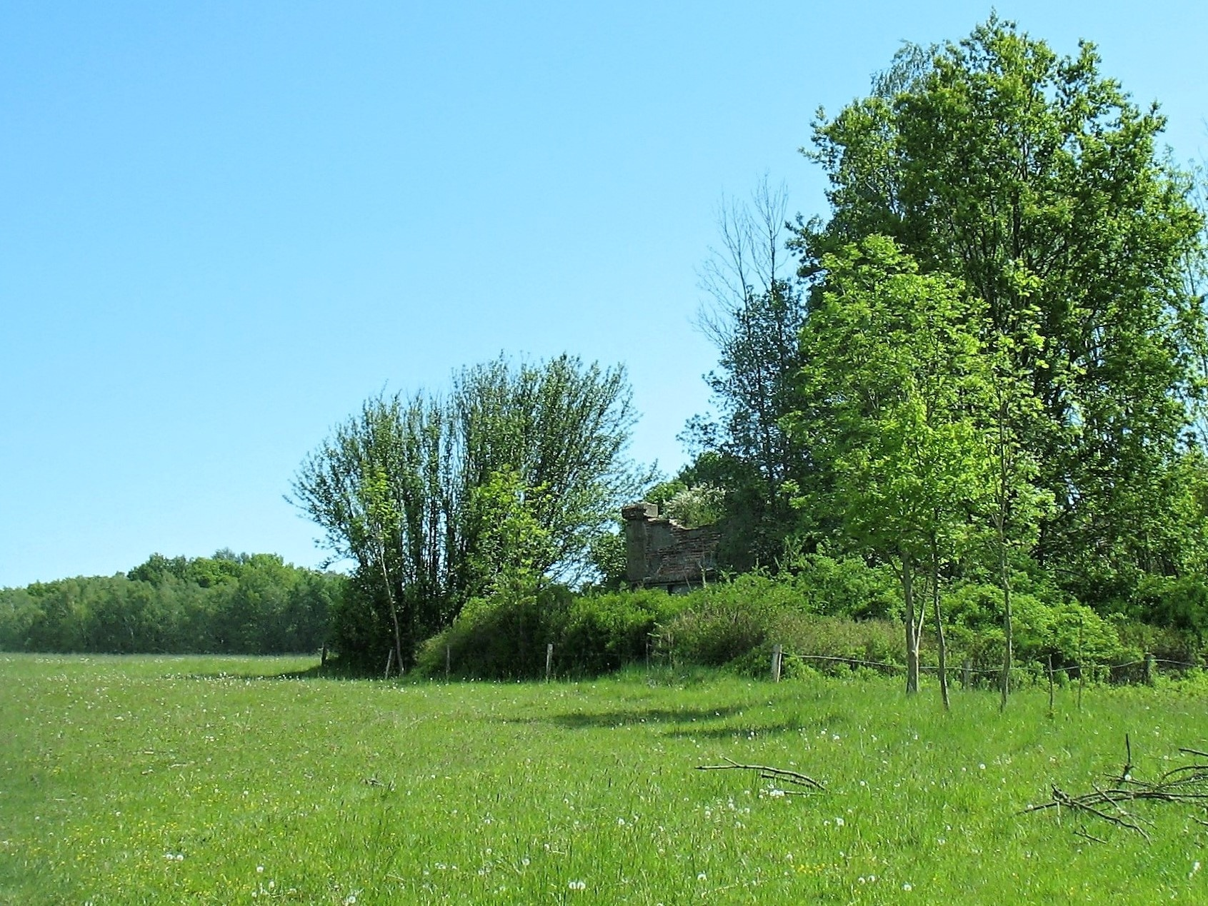 Water reservoir (cultural monument) in Bohatice, Česká Lípa District